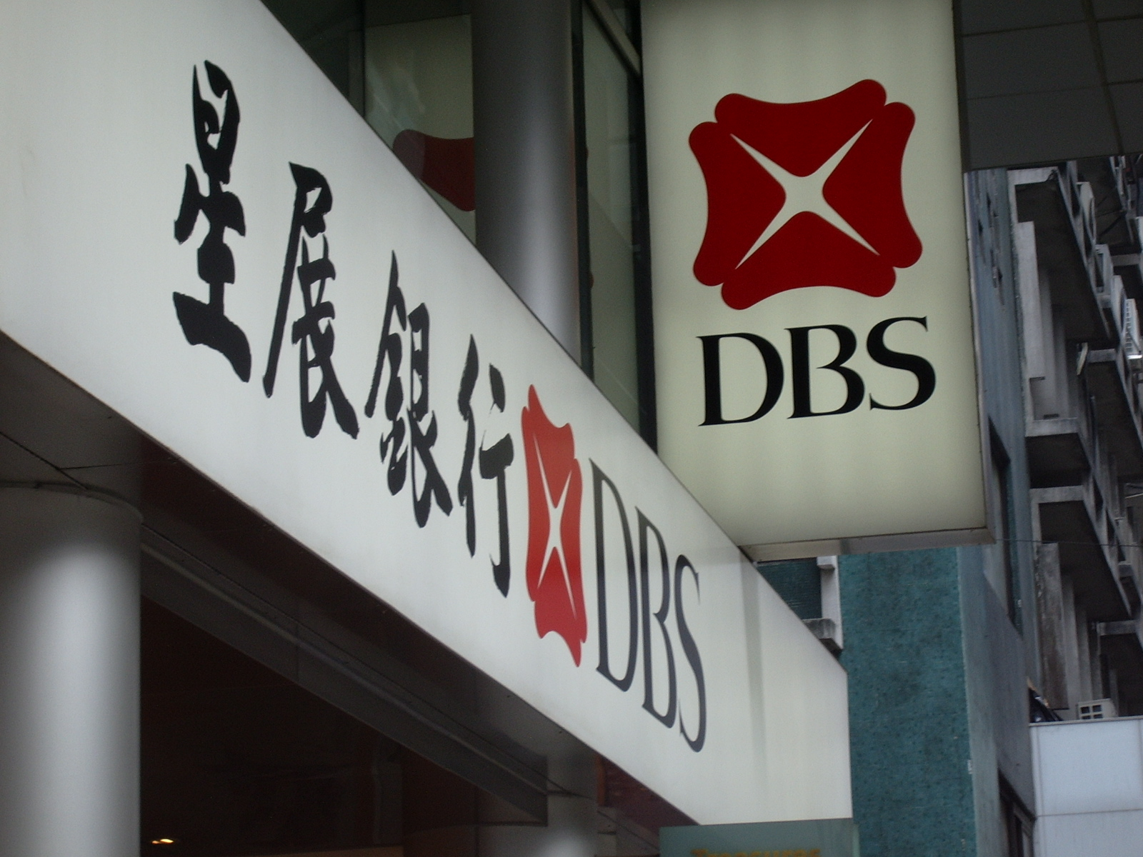 DBS Bank Branch in Des Voeux Road, Hong Kong. Picture taken on September 30 2004 using personal camera. Photographer (Juntung Wu) hereby releases it to public domain.